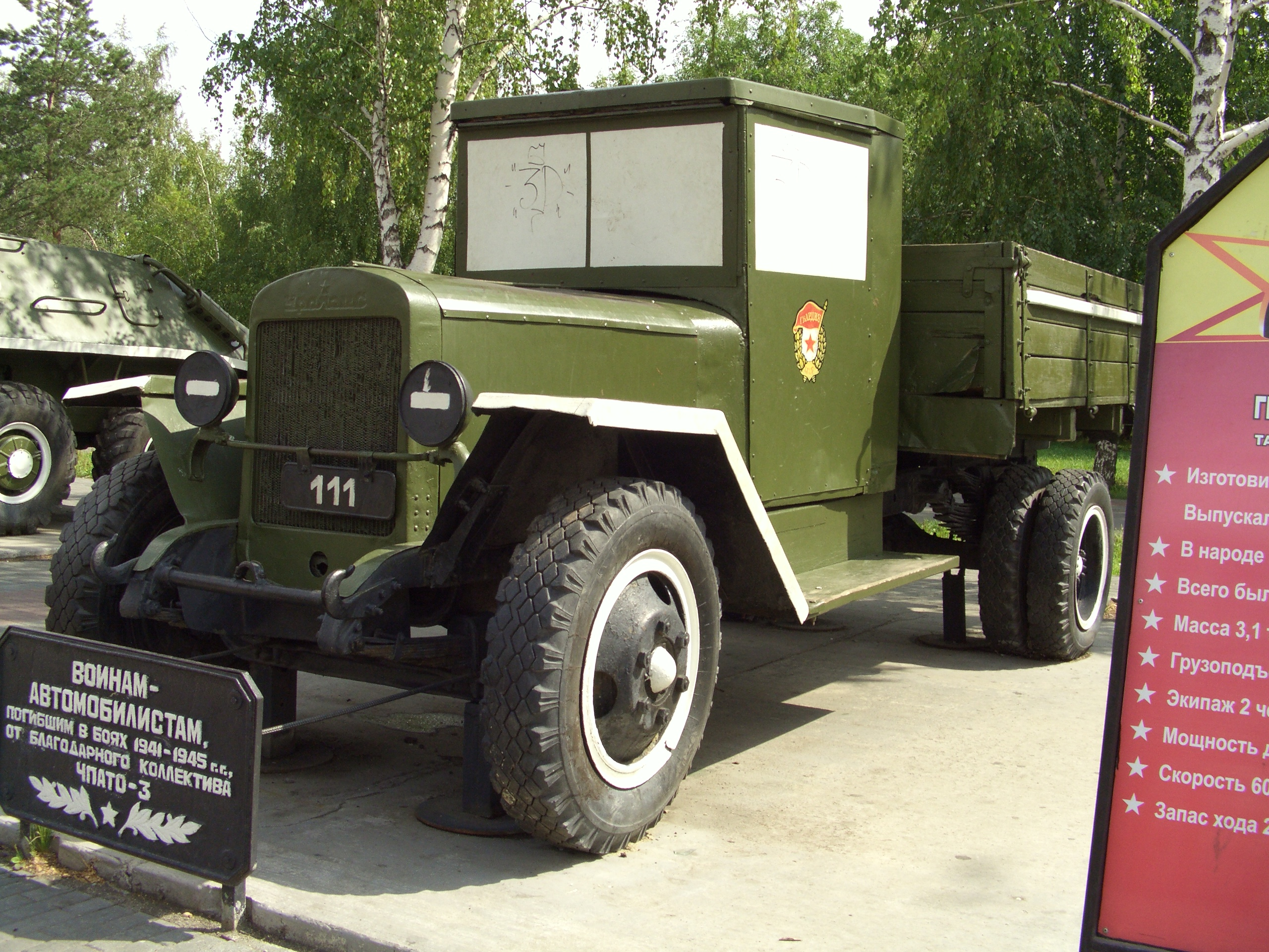 Unidentifiable vintage military truck of Russia, displayed in Chelyabinsk, seems to be a mock-up or replica.